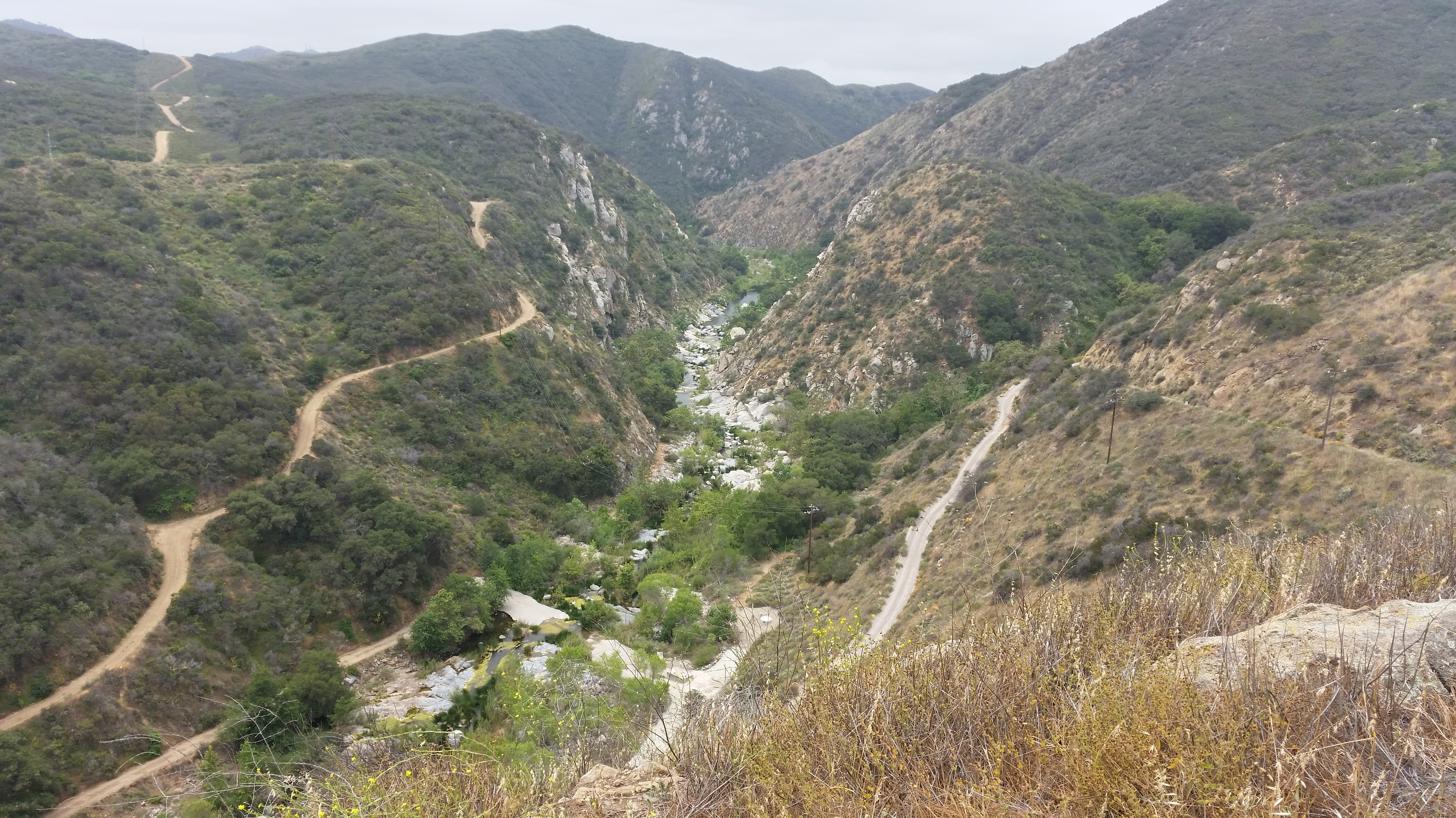 A view of the crossing of Via Tornado crossing under the Santa Margarita River, as seen from above near the Philip C. Miller Field Station